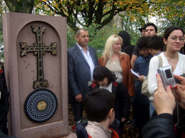 Armenian memorial unveiled The Armenian cross on the monument to the genocide, unveiled November 2nd 2007. Many Armenians and people of Armenian descent gathered to witness and record this first official recognition of the events of 1915. On January 28th 2008 (HolocaustDay) the monument was vandalised when a hammer was used to destroy the cross.